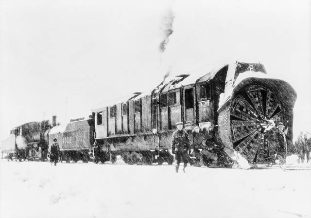 C.P.R. (Canadian Pacific Railway) Rotary Snow Plow, Revelstoke, B.C., [c. 1928].